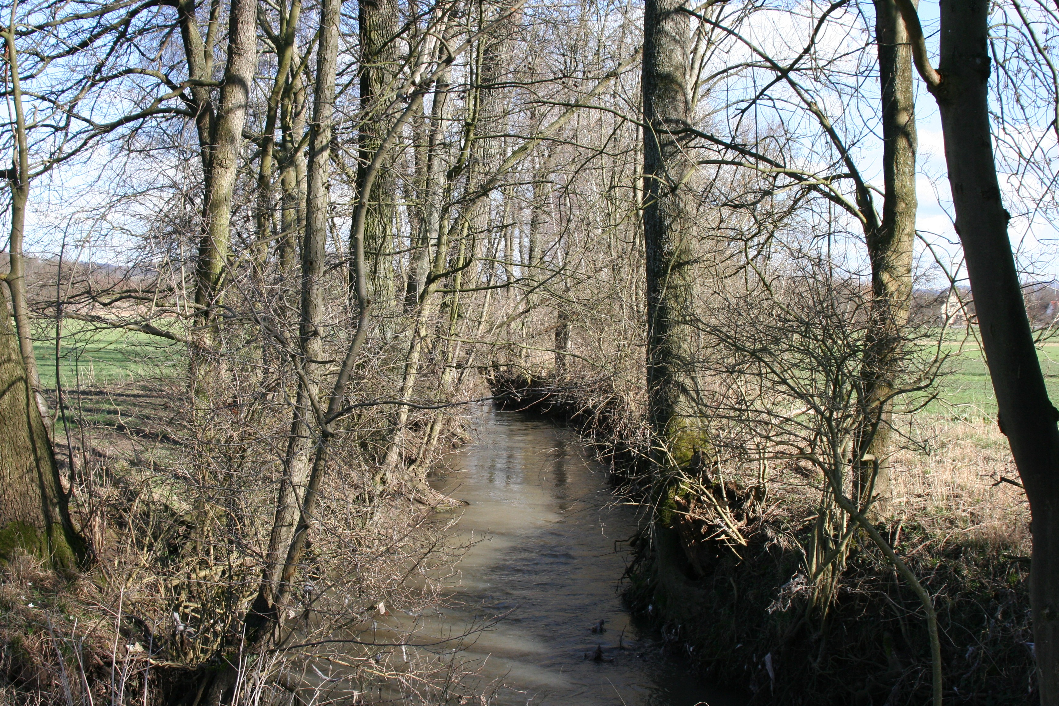 Sulm river in Ellhofen.